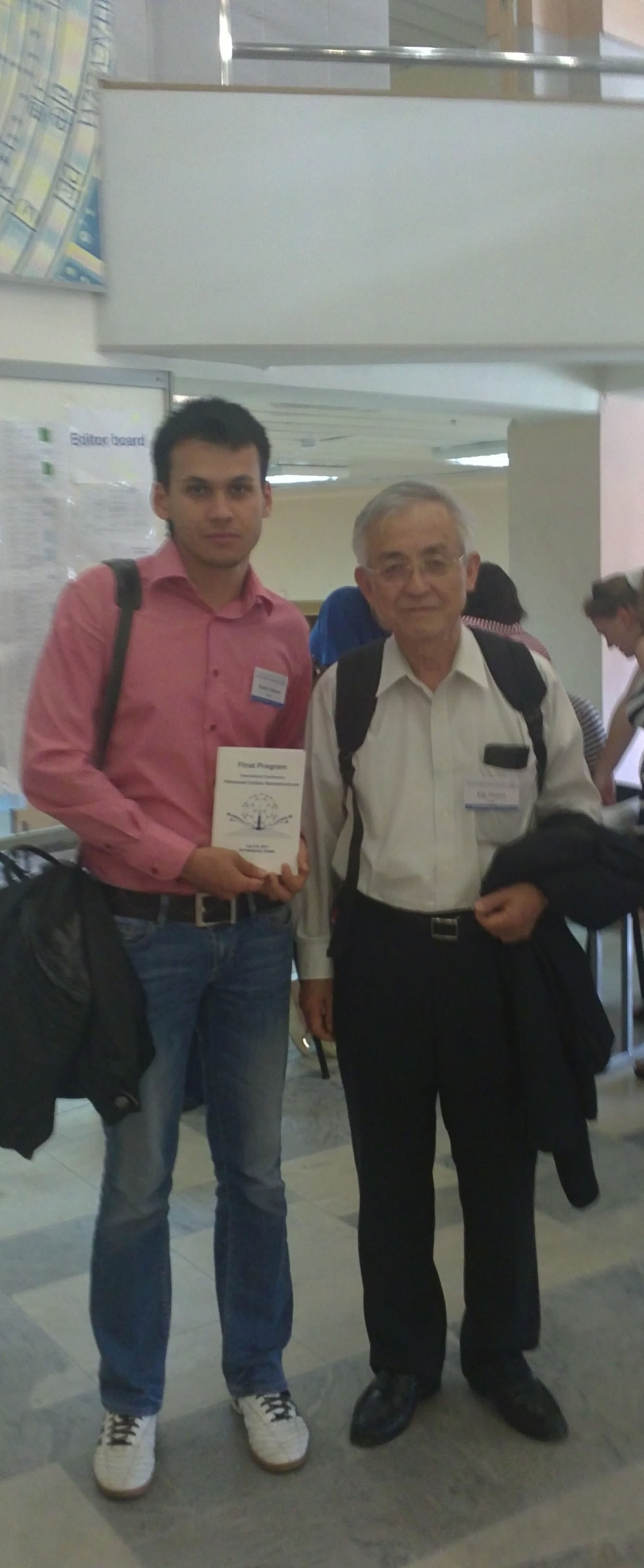 Denis Sh. Sabirov(left) and Eiji Osawa(right), professor of computational chemistry, famous for the prediction in 1970 of the C60 molecule. International Conference “Advanced Carbon Nanostructures”, St. Petersburg, 2011.jpg